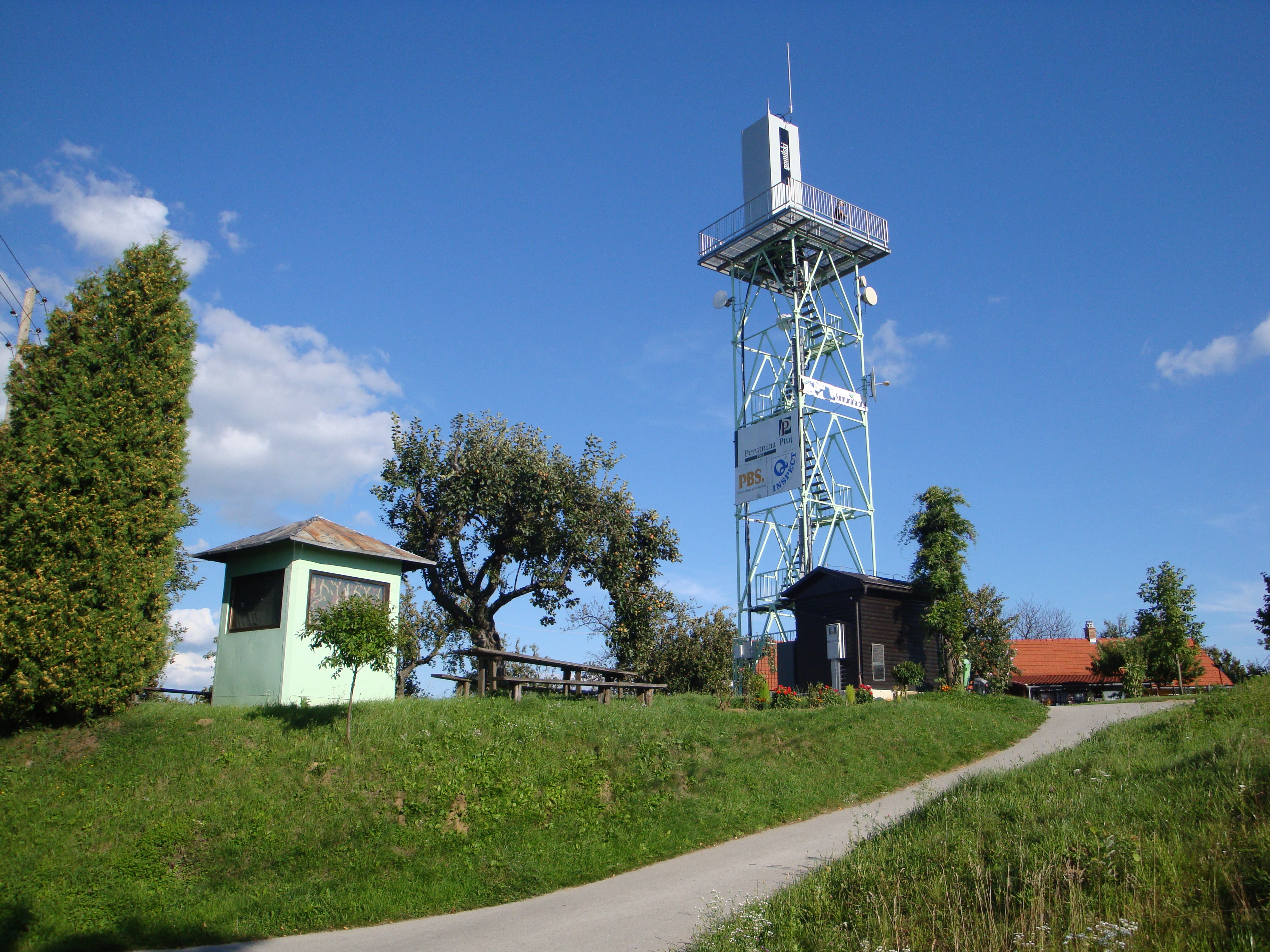 Tower on Gomila, Slovenske gorice, Slovenia